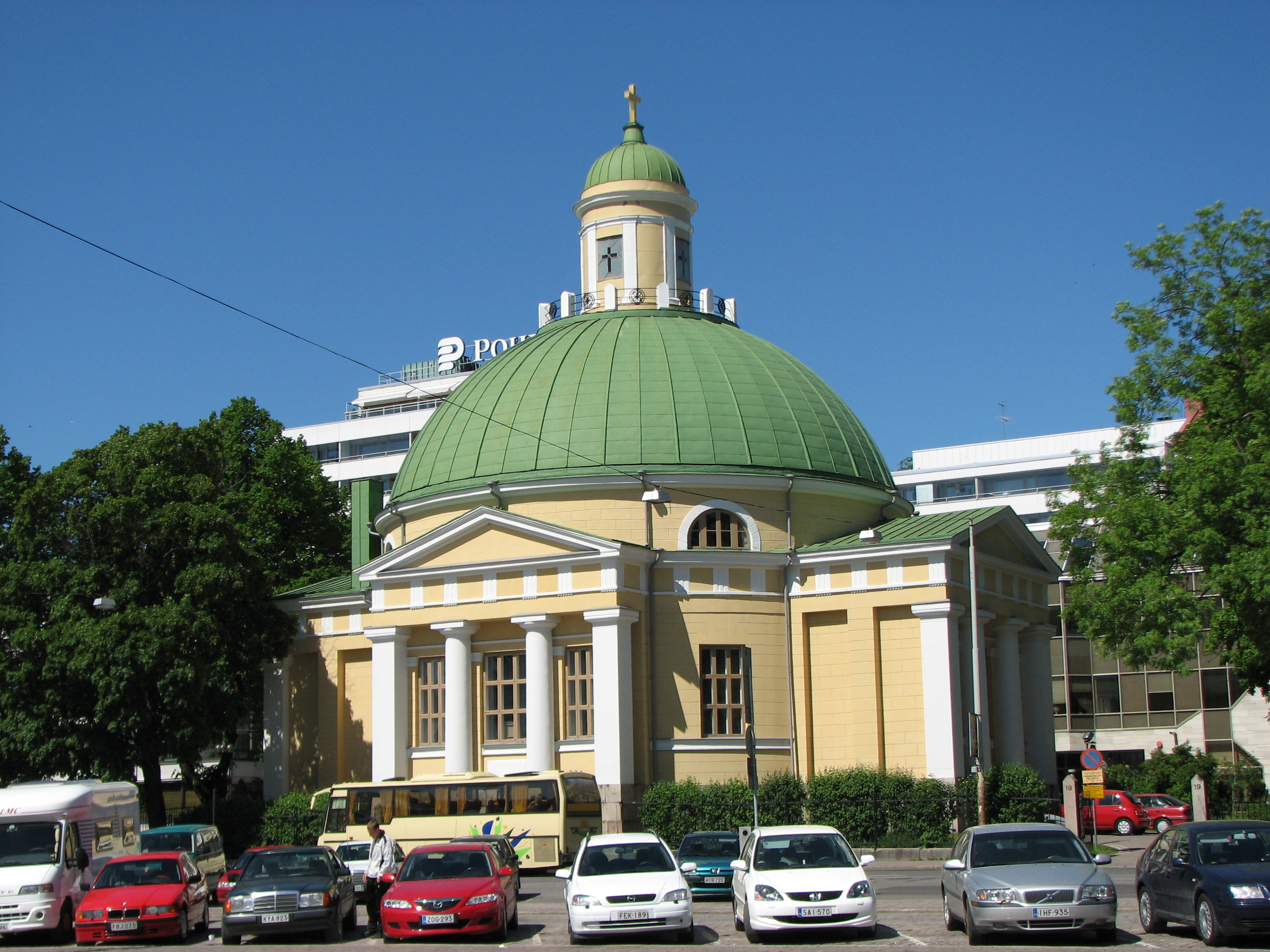 Turku orthodox church (the orthodox church of the holy Alexandra) in Turku, Finland